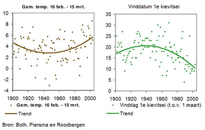 Graph reconstructed from data in Both, Piersma and Roodbergen, Climatic change explains much of the 20th century advance in laying date of Northern Lapwing Vanellus vanellus in The Netherlands, Ardea, vol. 93 (2005) p. 80-88. Graph shows average spring temperature and date of finding the first Lawping egg in the Dutch province of Fryslân, for the entire 20th century, together with regression analysis. The spring temperature was averaged over the period 16 February till 15 March.